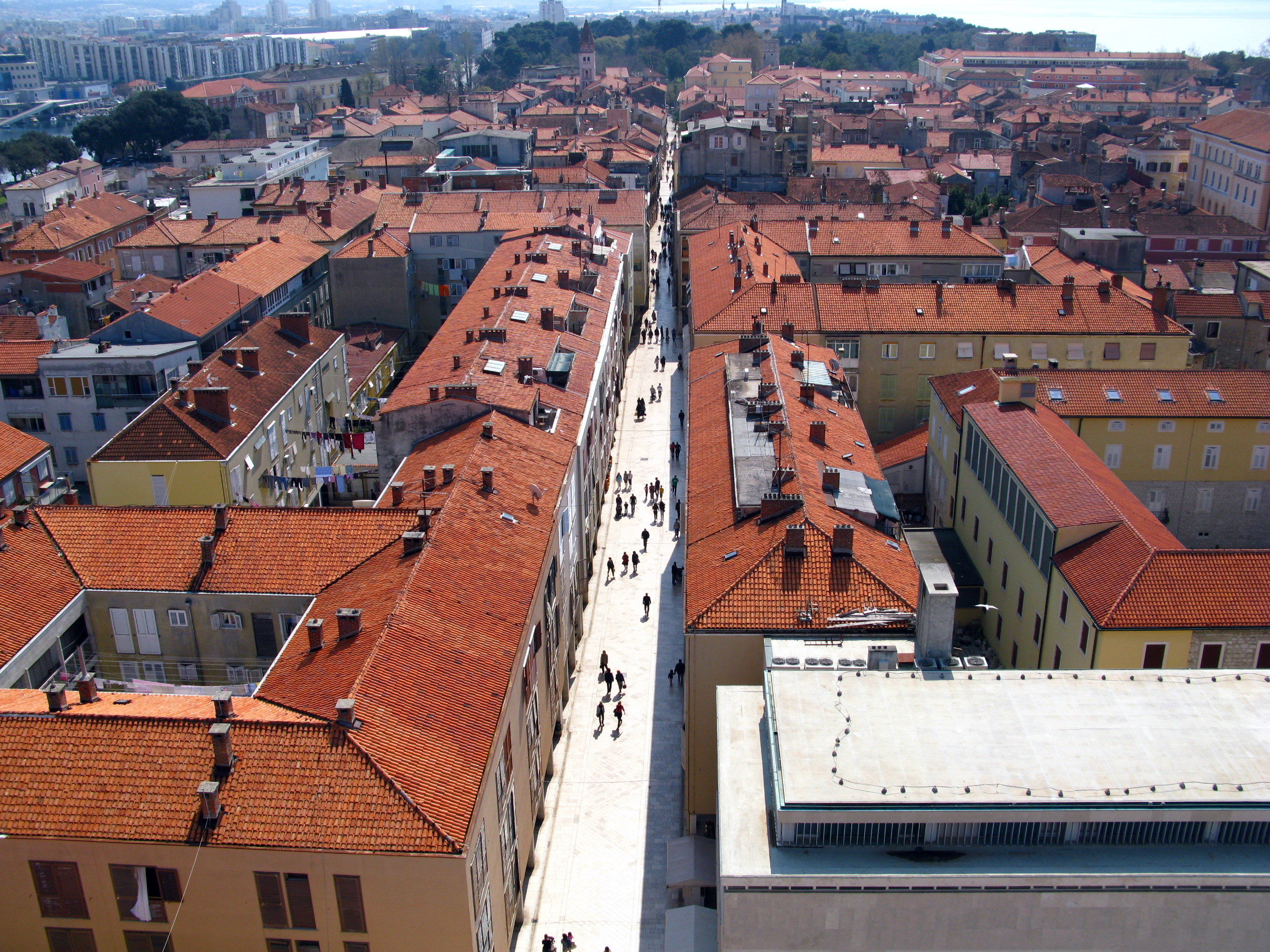 View from tower of cathedral of St. Anastasia in Zadar in Zadar / Croatia / Adriatic Sea.